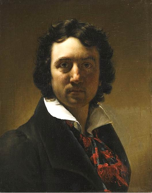 Self-portrait, slightly clearer facial features